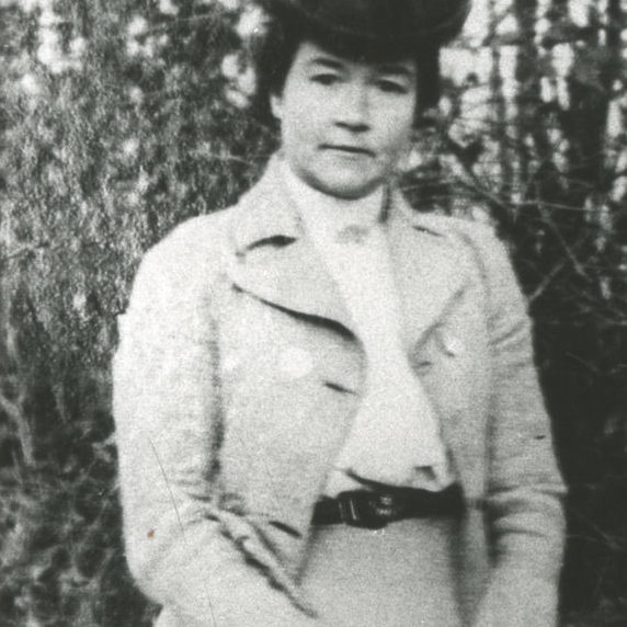 Photograph, b/w print; portrait of Mrs Annie "Kitty" Higdon, Tom Higdon's wife; photographer unknown GRSRM : CP.CP1064 70 years EU applies